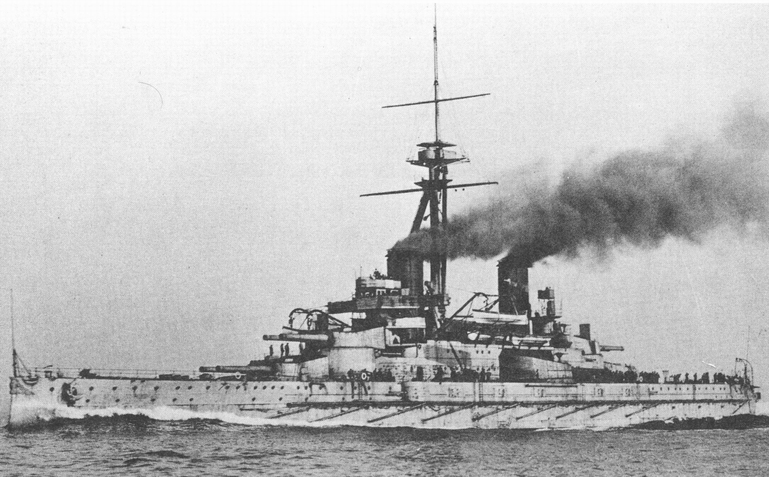 Brazilian Battleship Minas Geraes